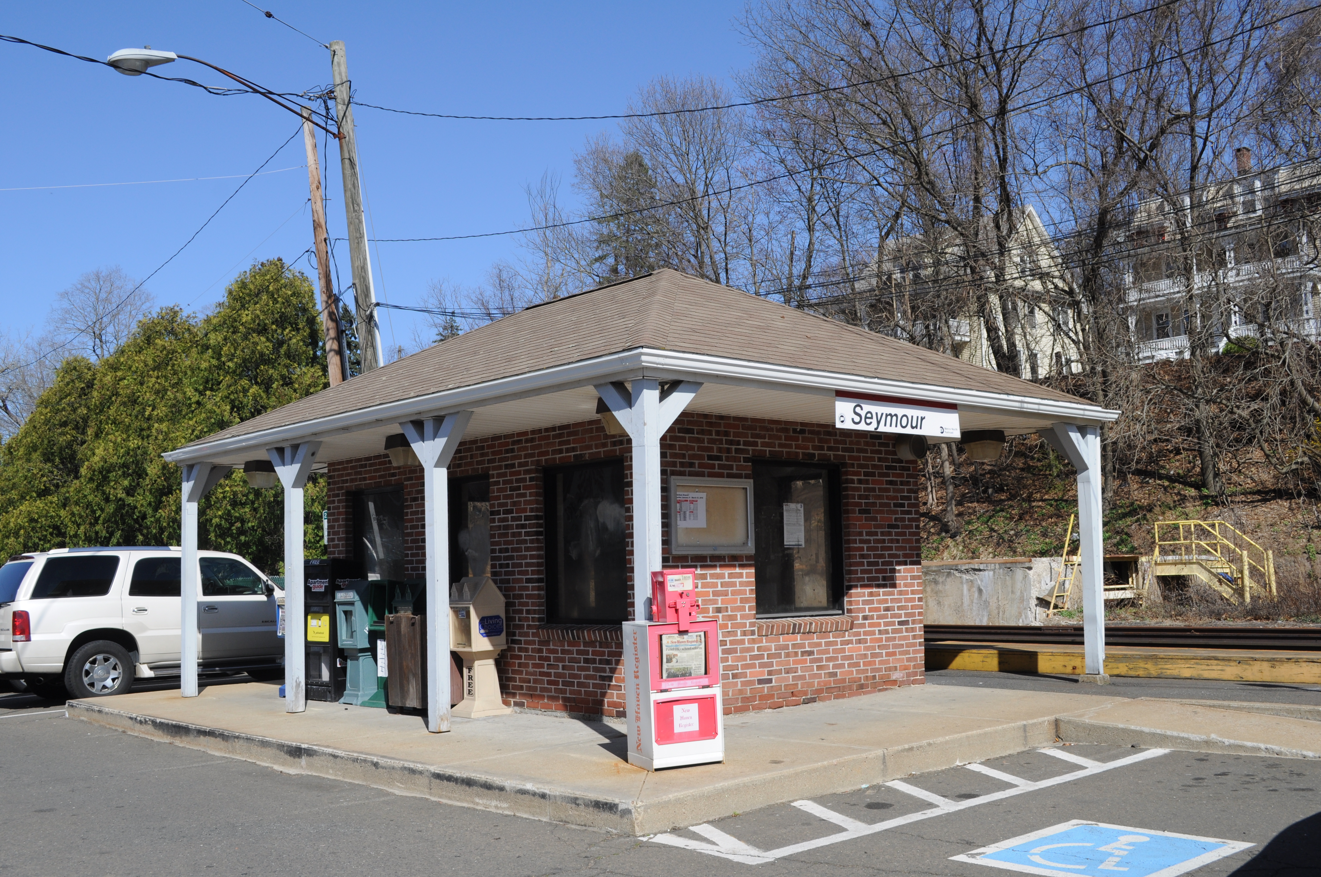 Train station, Seymour, Connecticut, seen from Kisson's Crossing (a footbridge across the tracks).